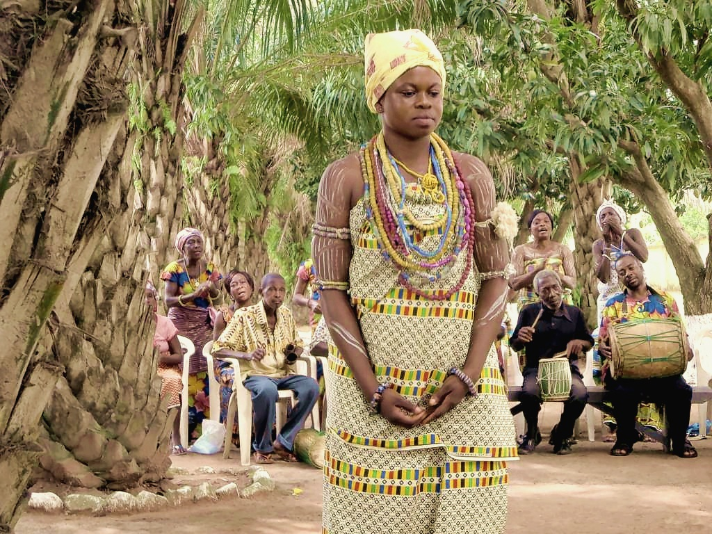 Krobo woman in traditional clothing at Krobo-Odumase (Eastern Region, Ghana)